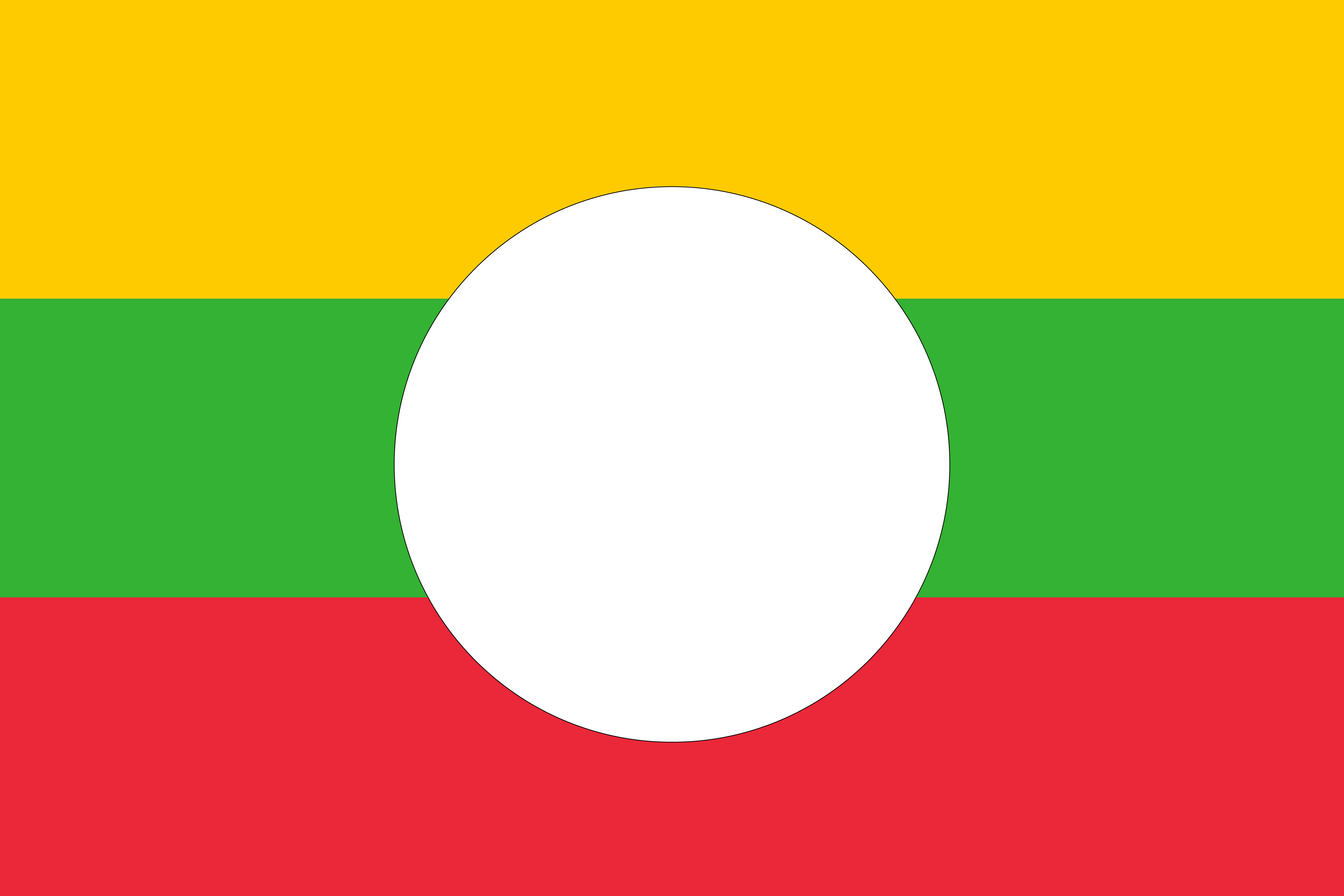 Flag of Shan